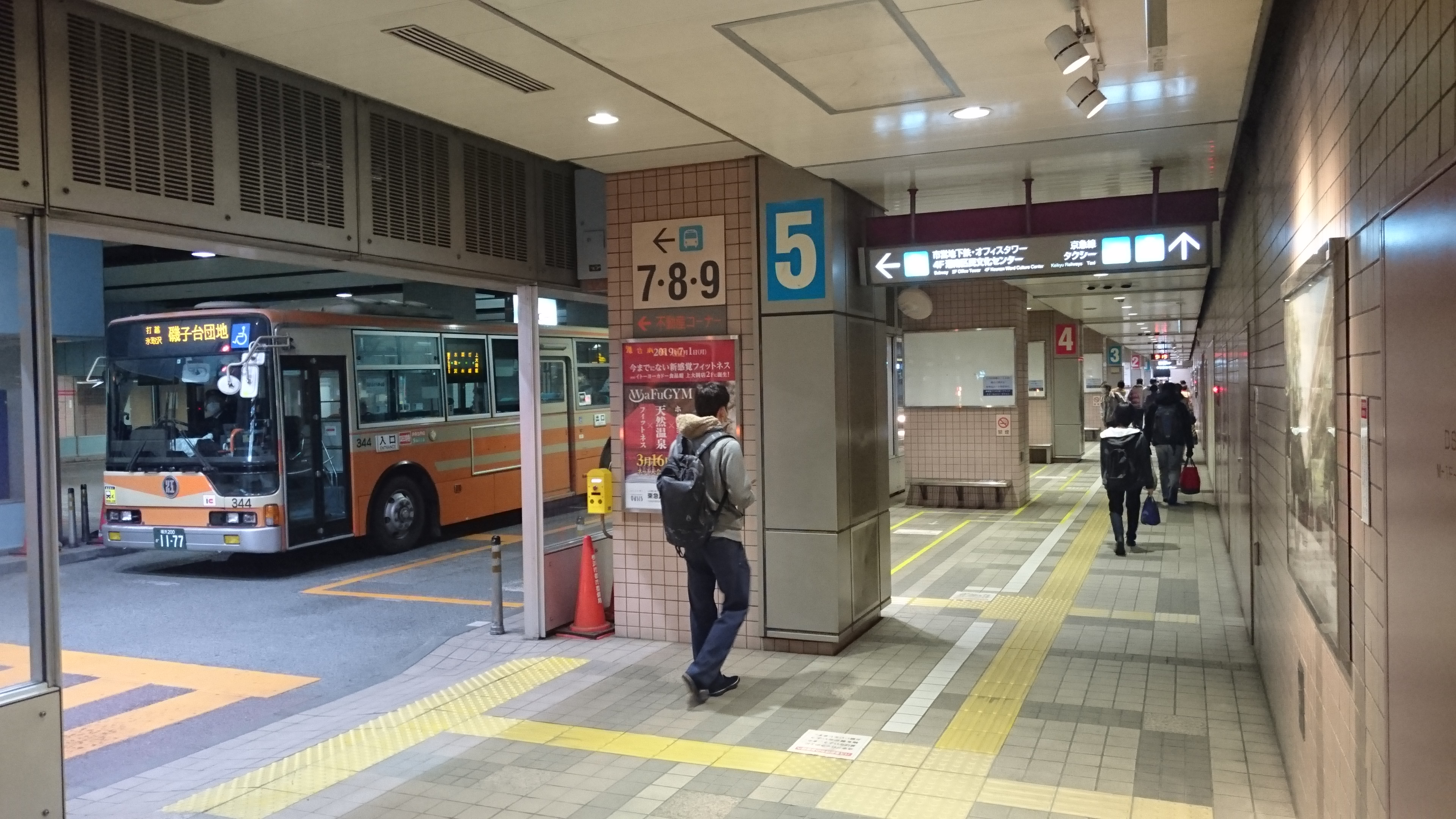 Kamiōoka Station bus station